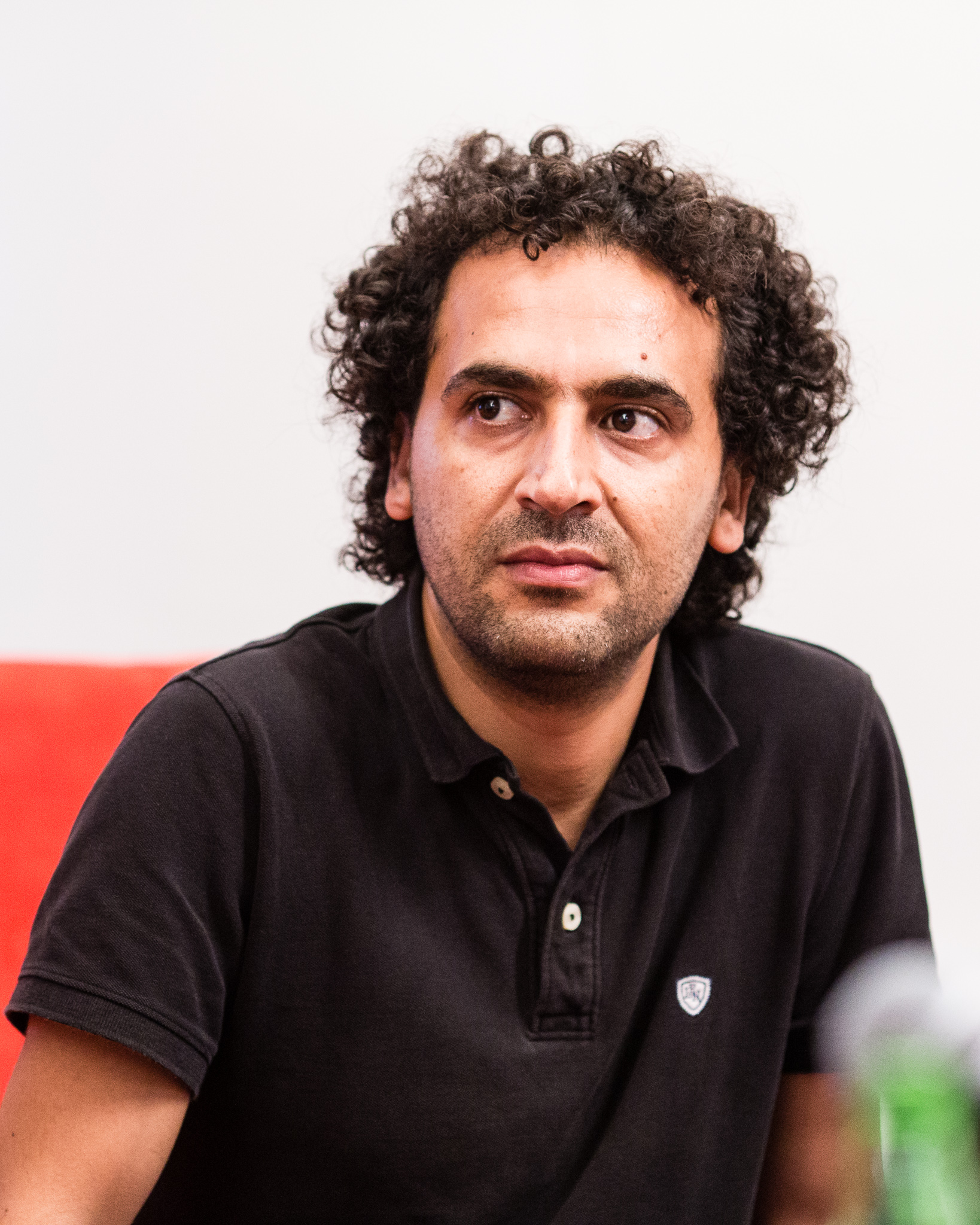 Murat Özyaşar on Authors’ Reading Month 2018, Wrocław, Poland